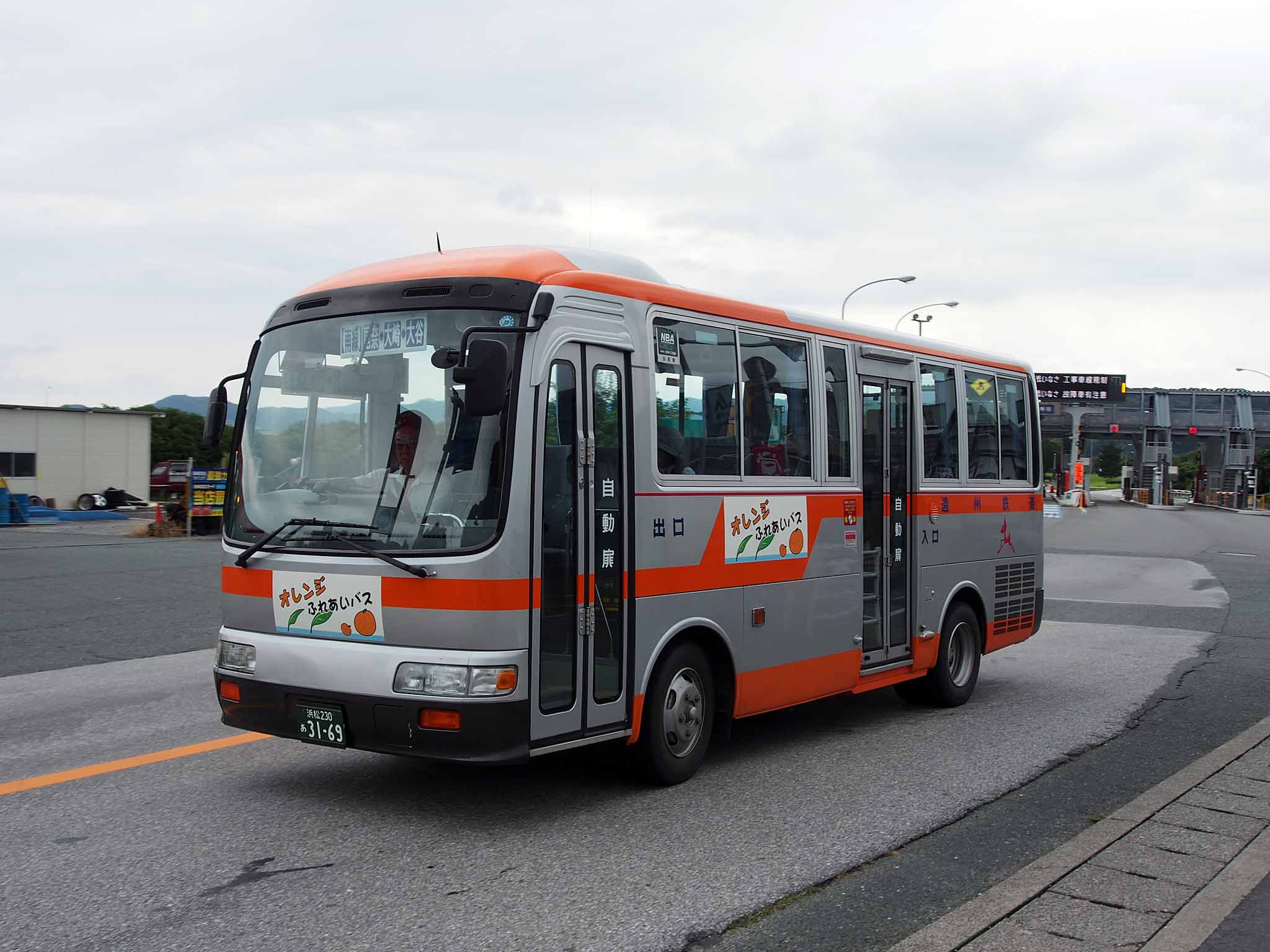 Fleet of Mikkabi Orange Fureai Bus. Model: Hino Liesse KC-RX4JFAA License plate: SZH230 A3169 Place: Neighbor of Mikkabi Interchange, Komaba, Kita Ward, Hamamatsu, Shizuoka Japan Operator: Enshu Railway (to September 2015)/Entetsu Taxi(since October 2015)